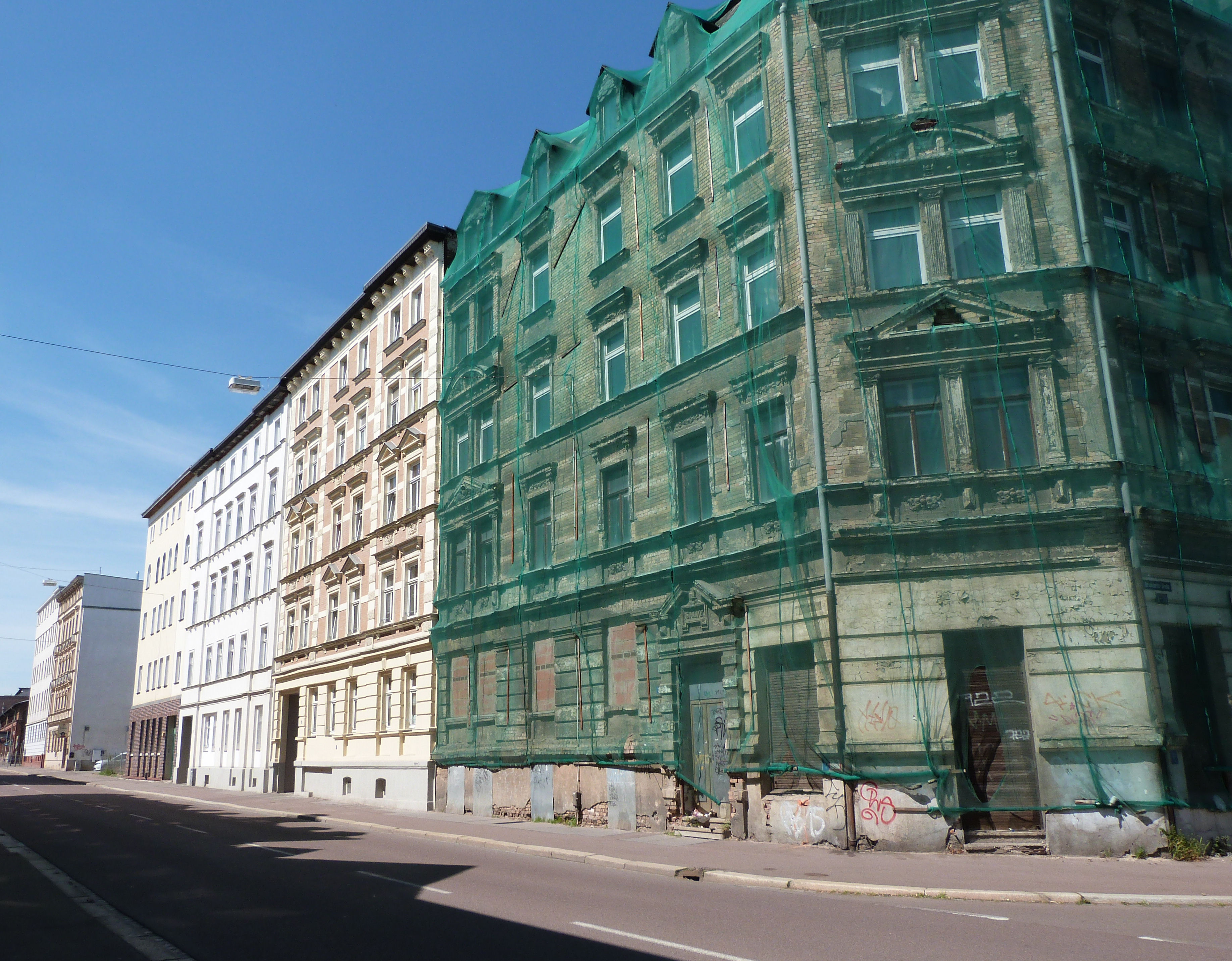 Raffineriestrasse in Halle (Saale), view to west, northern street side